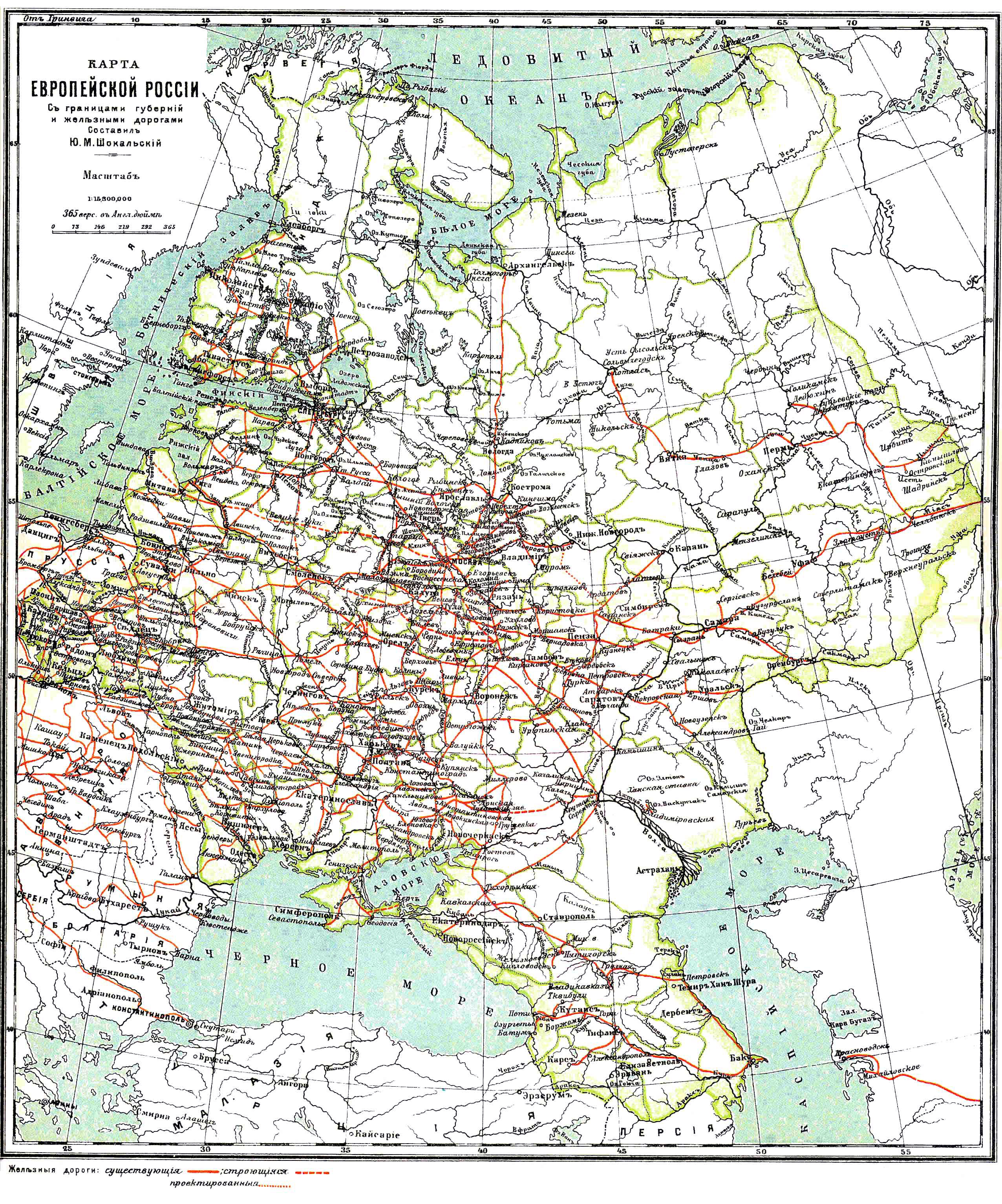 Illustration from Brockhaus and Efron Encyclopedic Dictionary (1890—1907)